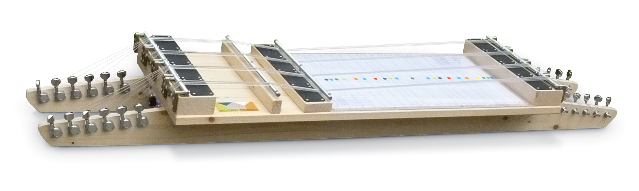 The instrument I made for Liam. Pic taken by myself.